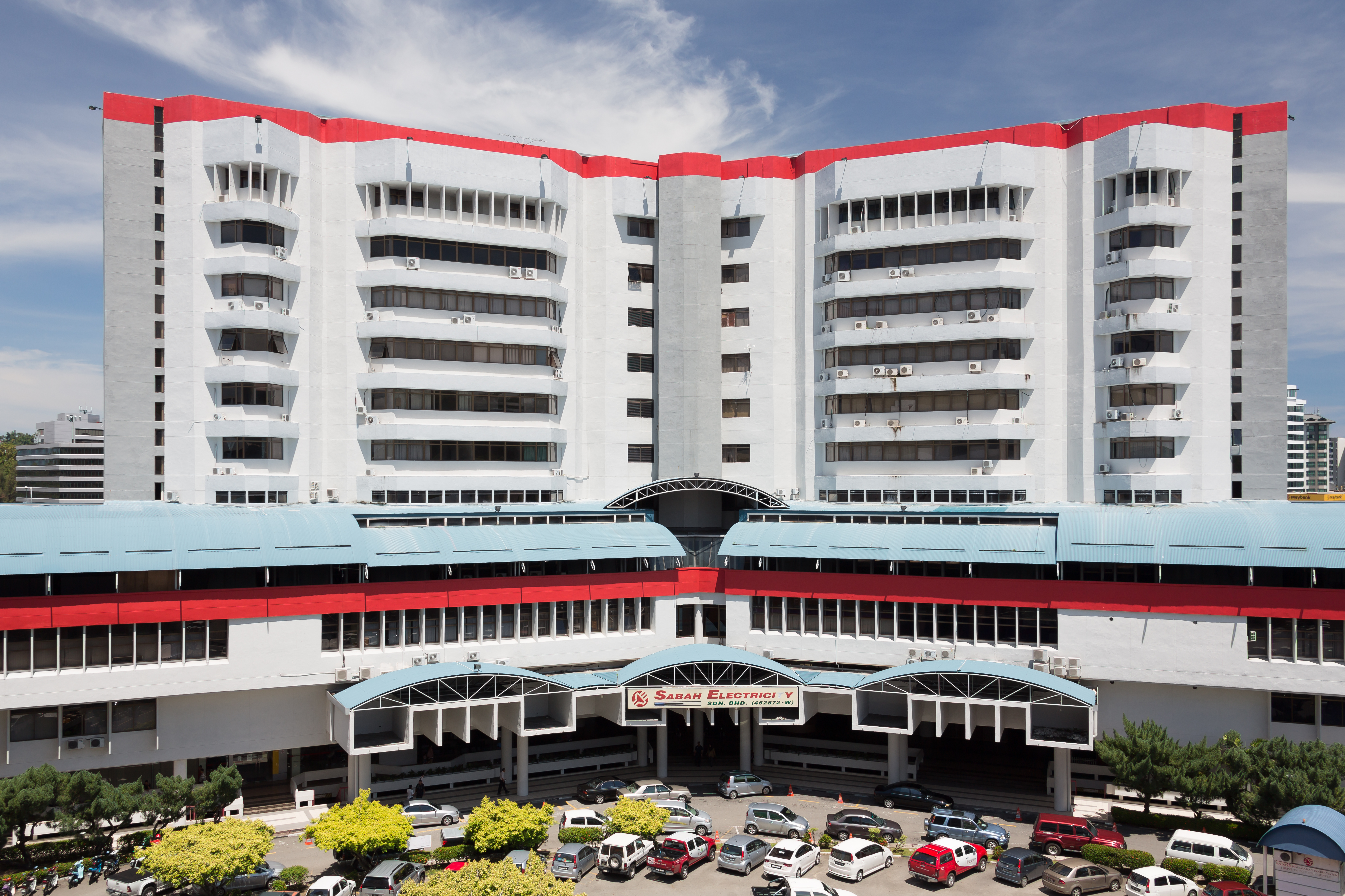 Kota Kinabalu, Sabah: WISMA SESB, Headquarters of Sabah Electricity Sdn Bhd in Karamunsing